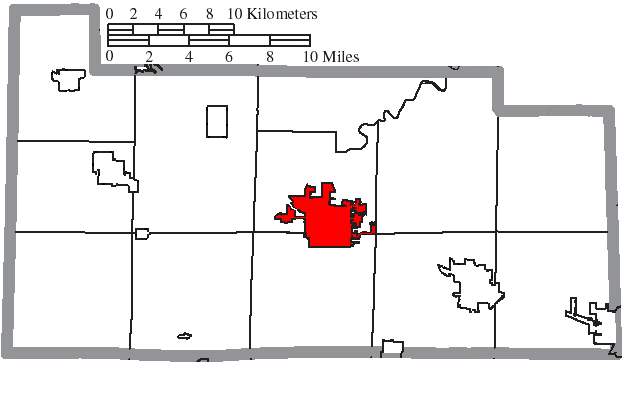 Map of the municipal and township boundaries of Sandusky County, Ohio, United States, as of the 2000 census, with the location of the city of Fremont highlighted. Township borders are shown only in unincorporated areas in order to differentiate incorporated and unincorporated areas more clearly.